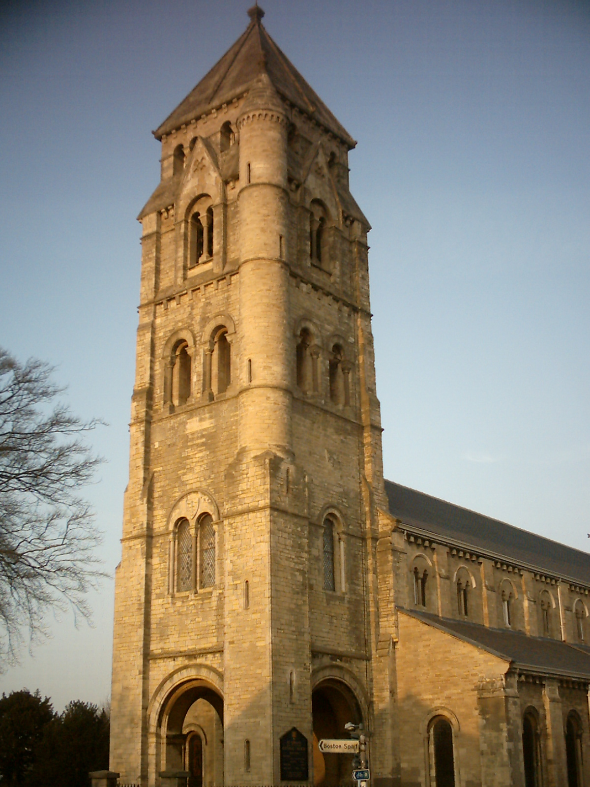 The Catholic Church in Clifford, West Yorkshire